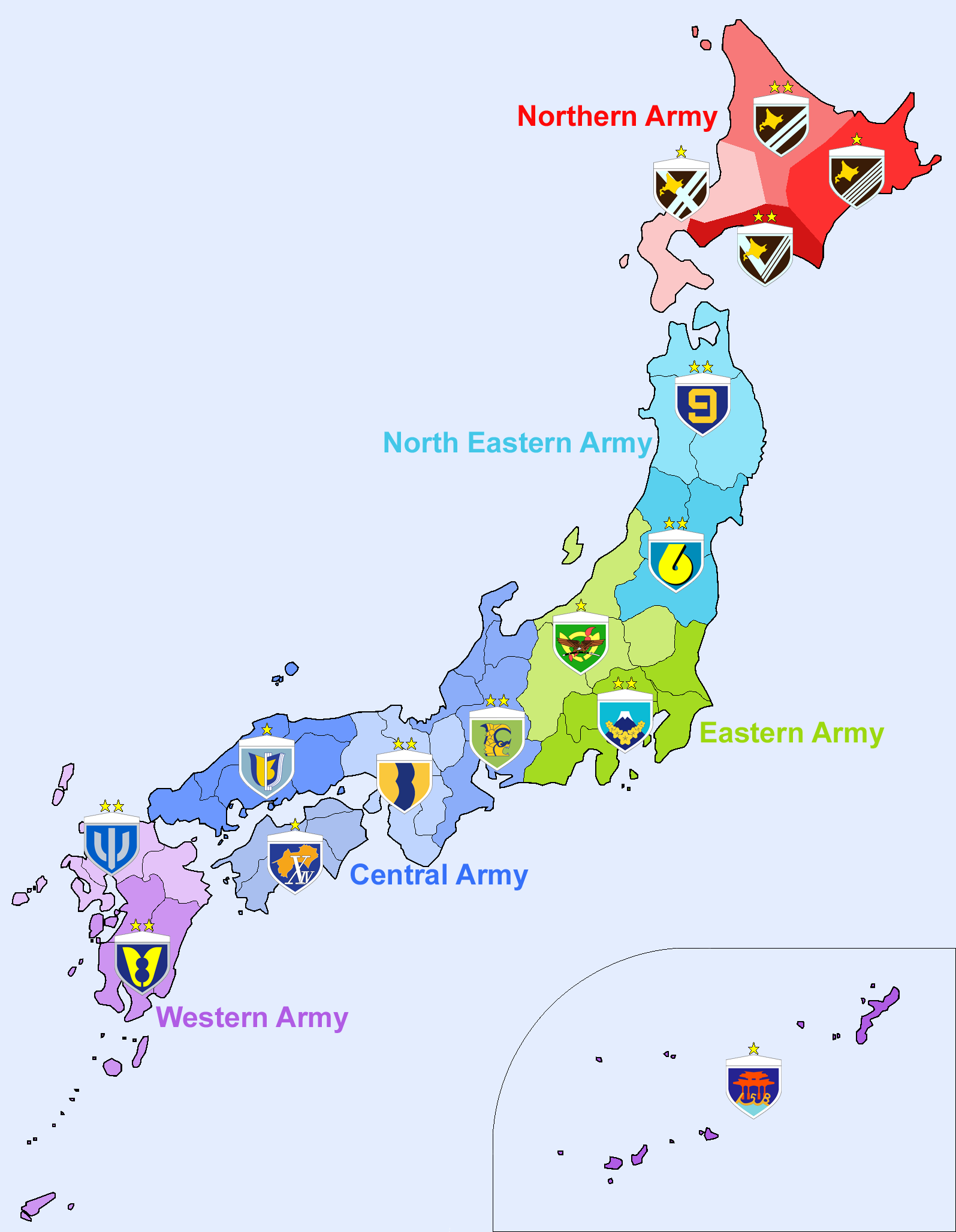 Location of the major unit commands of the Japan Ground Self-Defense Forces